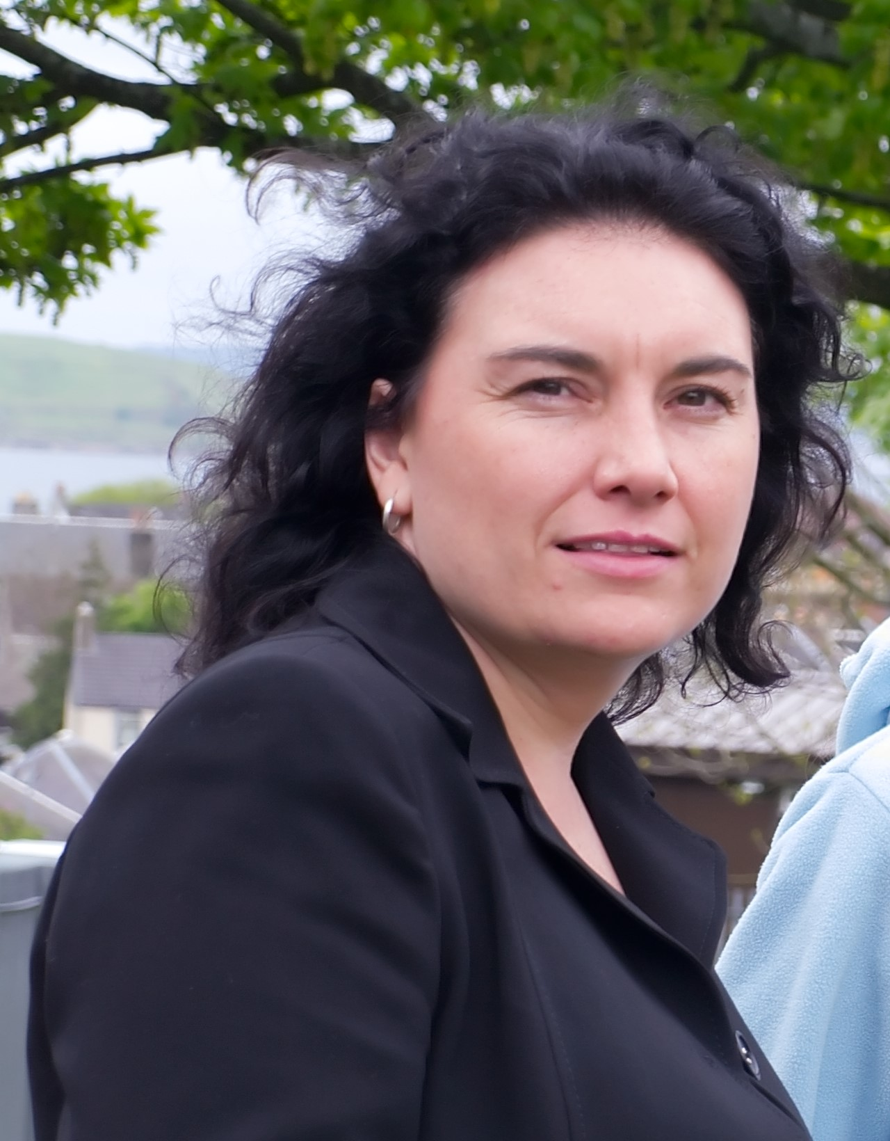 Photograph of Katy Clark, May 2007